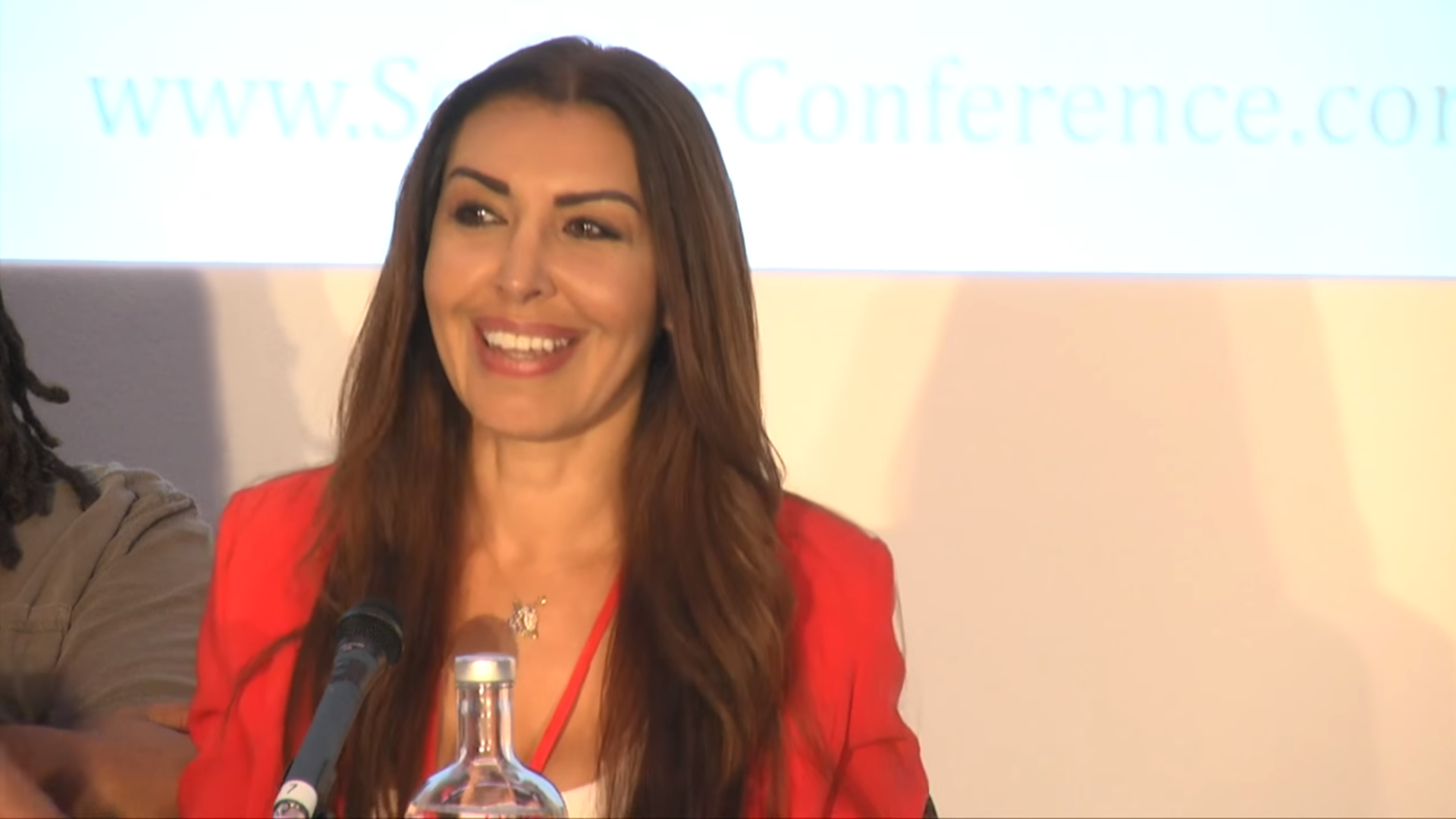 Zehra Pala speaking at the International Conference on Free Expression and Conscience, London, 22-24 July 2017 (#IWant2BFree).